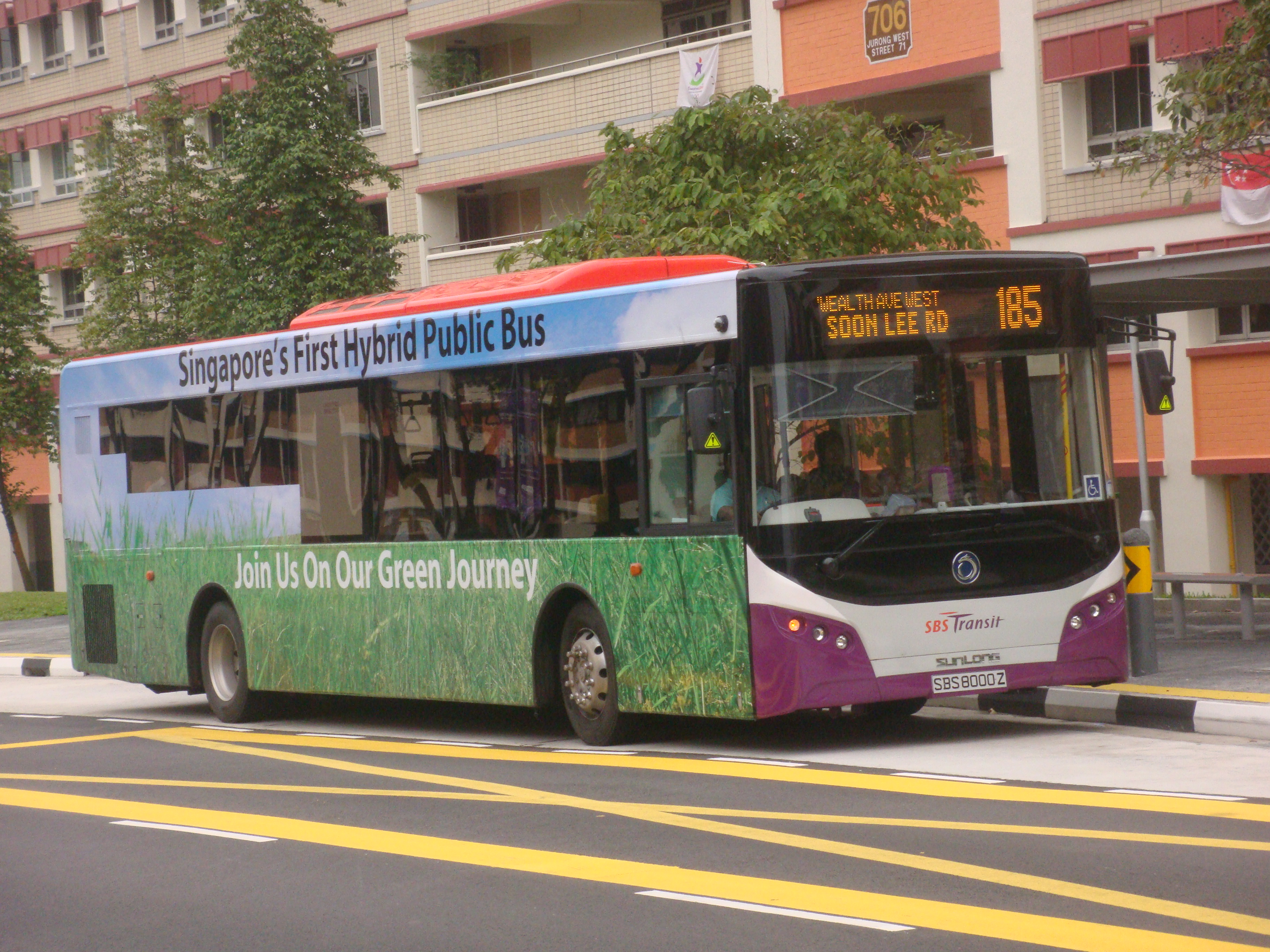 SBS Transit's Sunlong SLK6121UF14H Hybrid on Service 185.